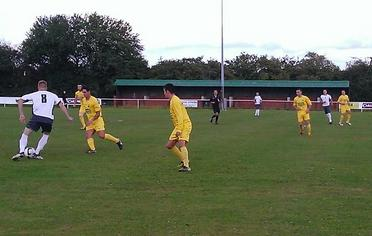 Bolehall Swifts F.C. vs Littleton F.C., 14 September 2013. Took the picture myself Summary Bolehall Swifts F.C. vs Littleton F.C., 14 September 2013. Took the picture myself